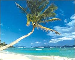 I own this picture and expressly release it to the public domain